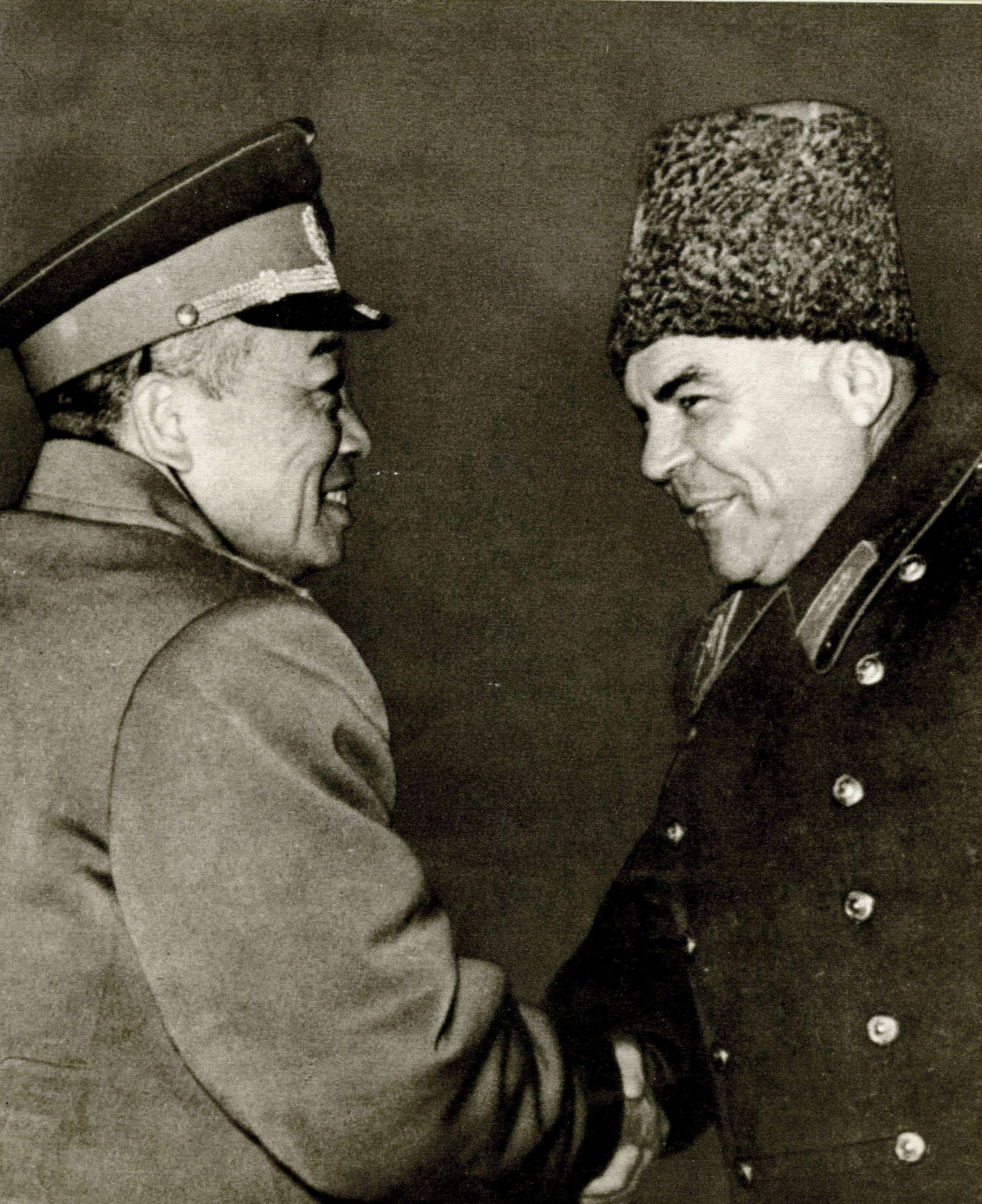 Peng_Dehuai and USSR Defence Minister Malinovsky, Moscov, 1957